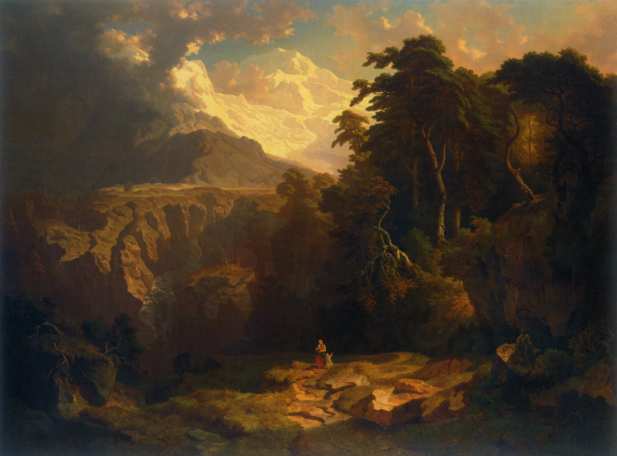 Ortler by Heinrich Heinlein. Oil on Canvas